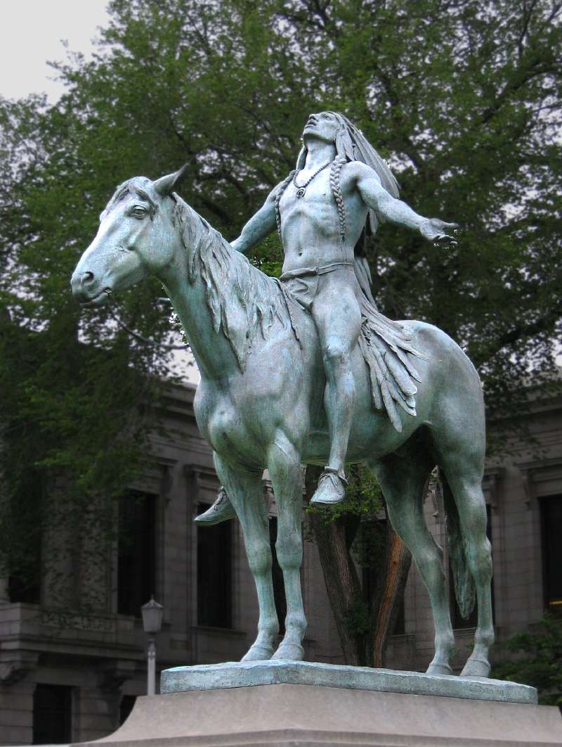 1909 Statue Appeal to the Great Spirit by Cyrus Edwin Dallin, at the entrance to the Museum of Fine Arts, Boston. This image is copyright Â©2006 Daniel P. B. Smith and released under the terms of the GFDL by Daniel P. B. Smith.